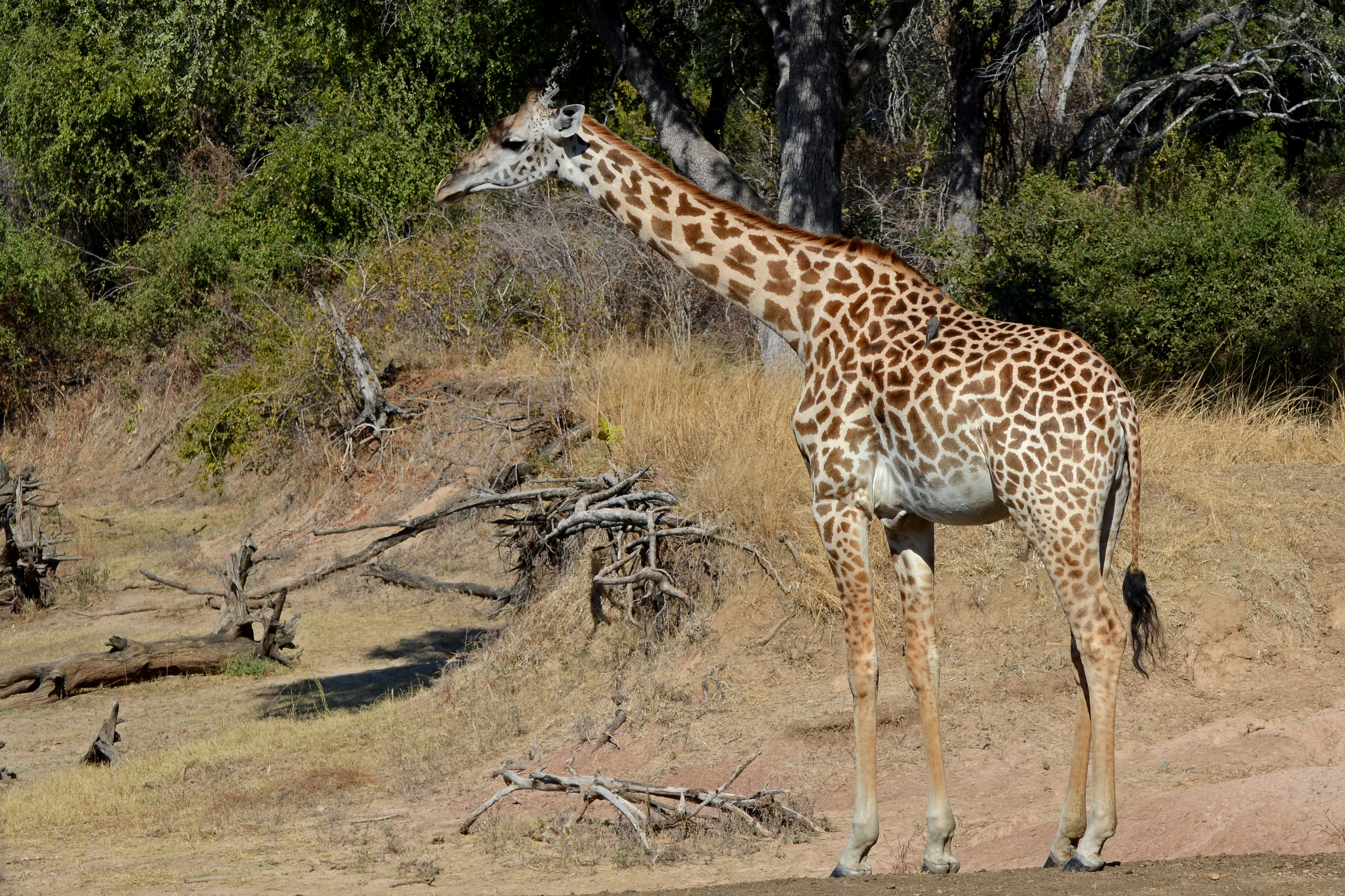 Giraffidae: Giraffa camelopardalis thornicrofti A Zambia endemic (subspecies), found in South Luangwa National Park